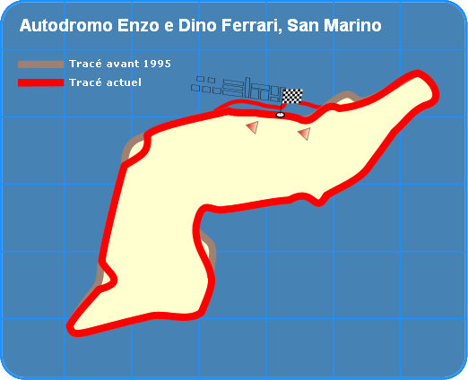 Diagram showing changes made to the Autodromo Enzo e Dino Ferrari after the 1994 San Marino Grand Prix (french verson)